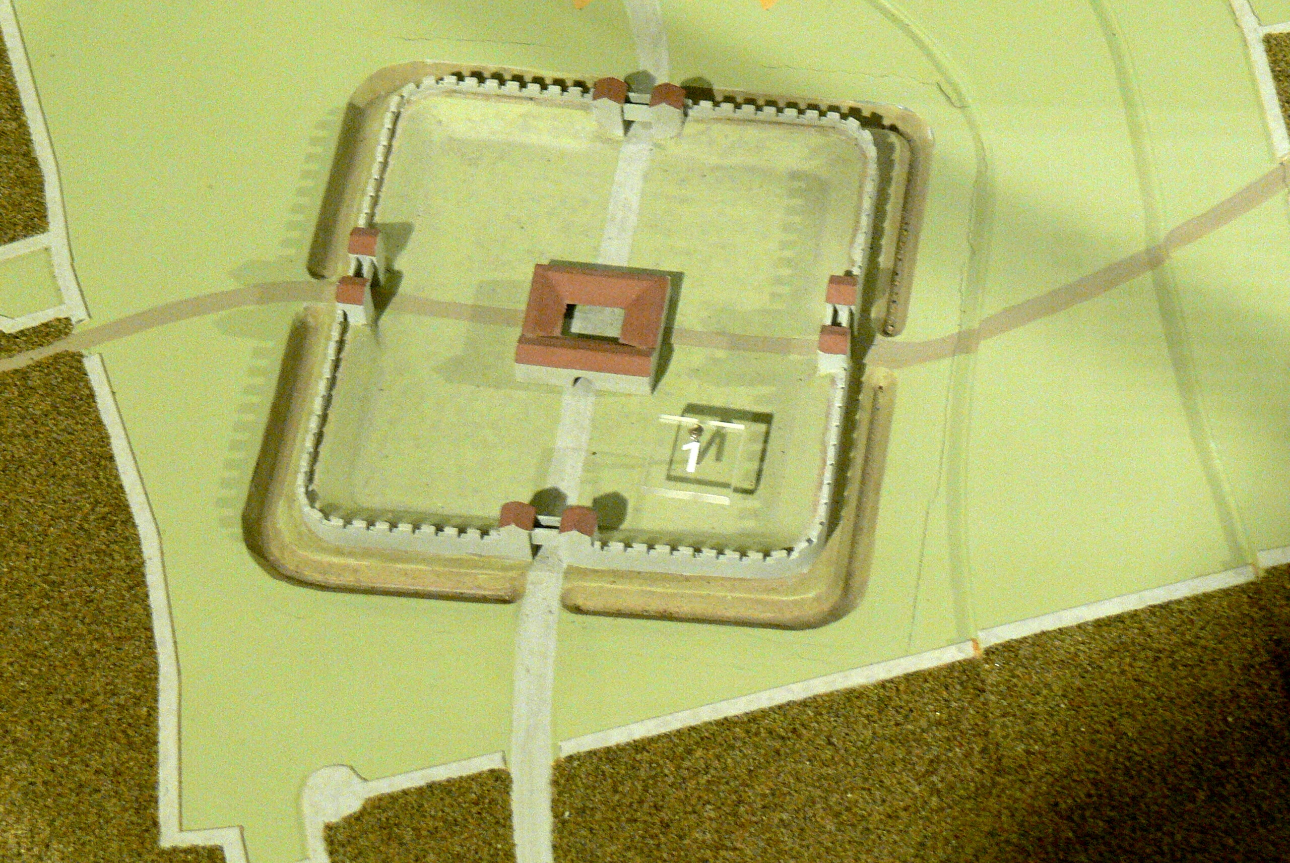 Archaeological museum Gunzenhausen ( Bavaria ). Model of an ancient Roman Numerus fortification near Gunzenhausen.